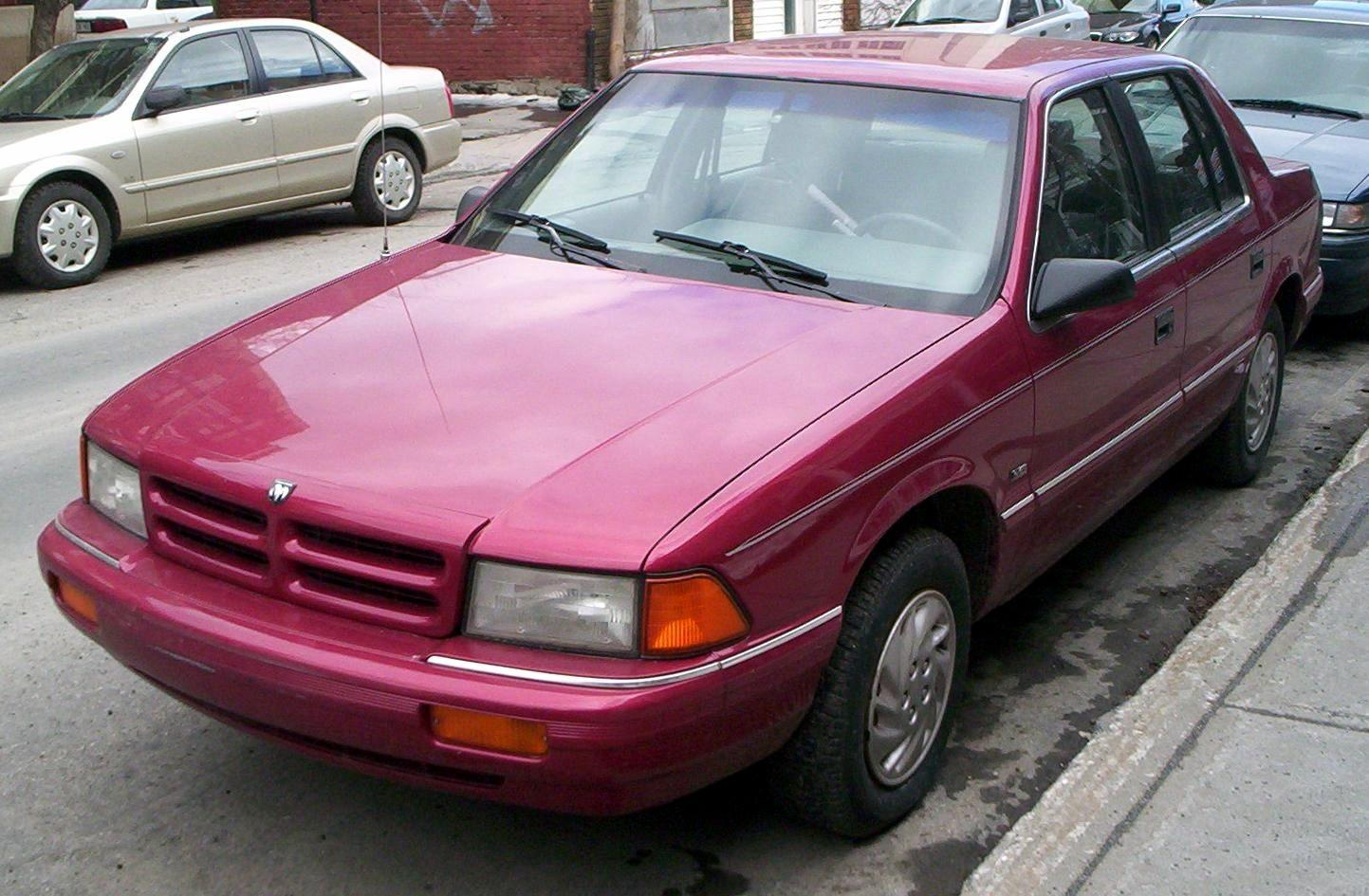 1993-1995 Dodge Spirit photographed in Montreal, Quebec, Canada